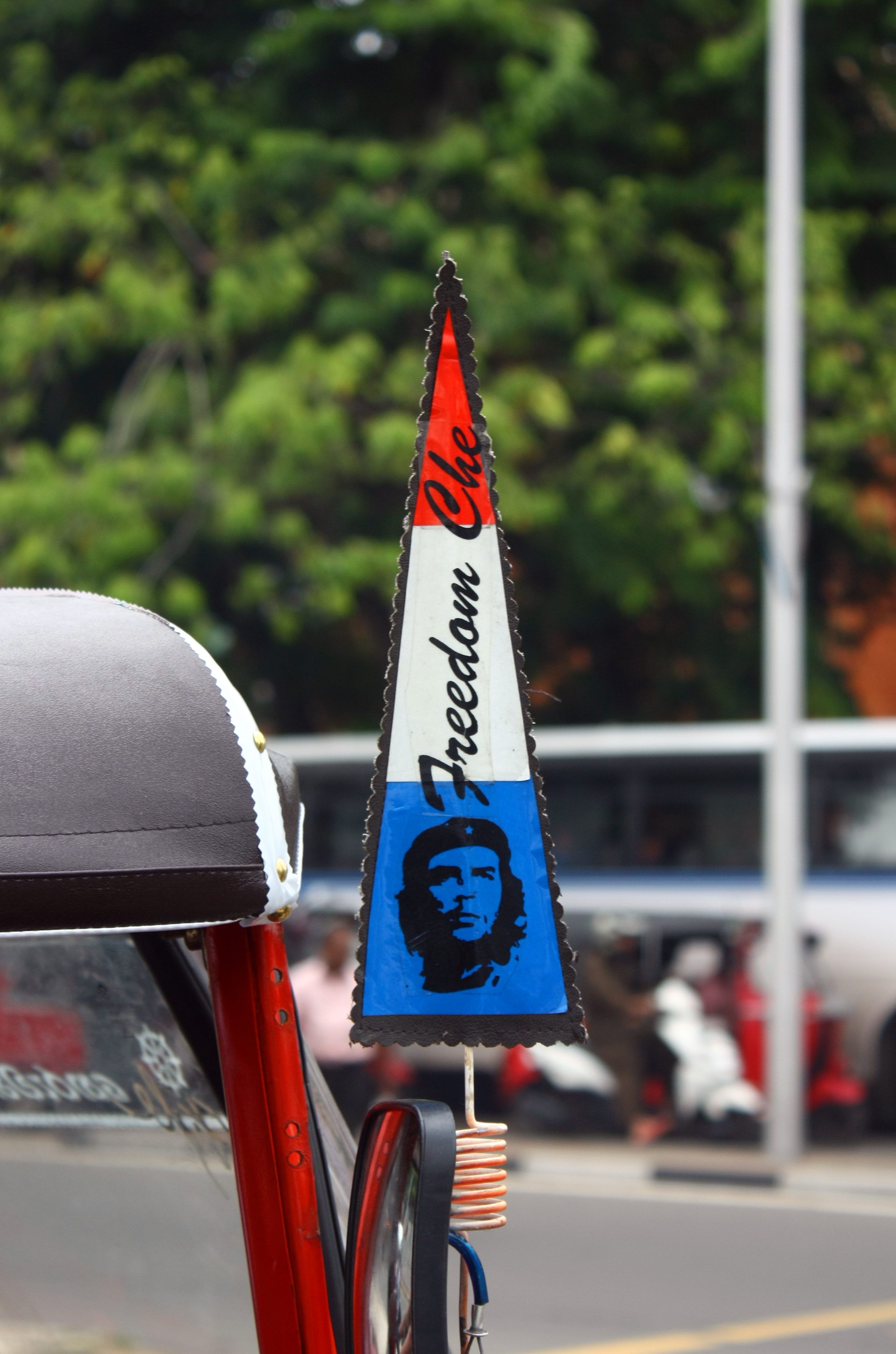 An auto rickshaw in Colombo (Si Lanka) displays a placard of Che Guevara with the words "Freedom Che".